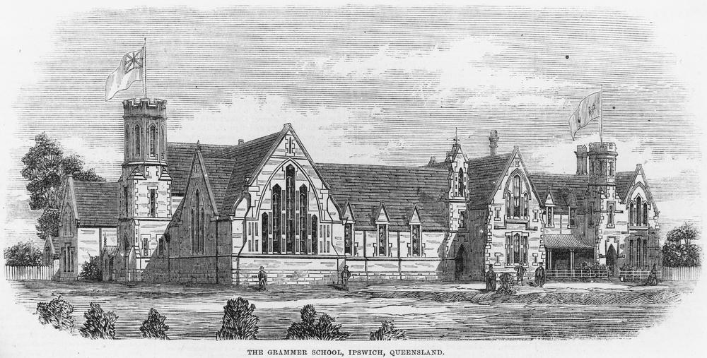 Ipswich Grammar School sketch, 1873 'Main building is listed on the basis of historic significance, being the first grammar school established under the Grammar Schools Act in the colony of Queensland and the first school at secondary level in Queensland. The main building, built in 1863, was designed by Benjamin Backhouse in Gothic Revival style and comprises classrooms, great hall, towers and dormitories. It is constructed of brick now rendered, is two storeys in height, and has a steeply pitched roof.'(Description supplied with photograph.) Information taken from: Australian town and country journal, 26 June, 1873.